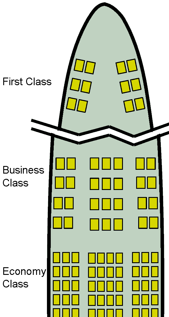 Partial diagram of seat classes on an American Airlines Boeing 777-200.